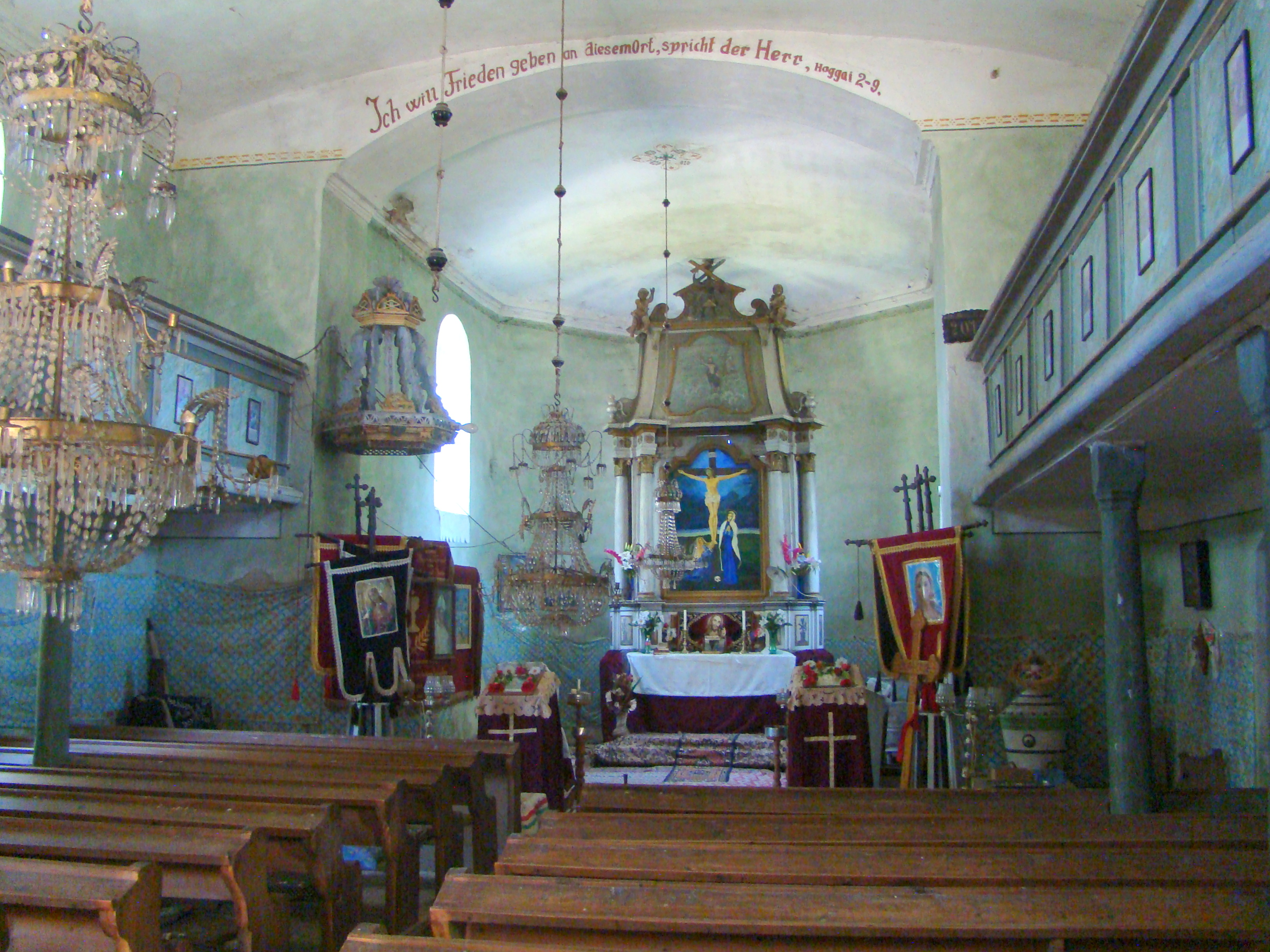 Lutheran church in Posmuș, Bistrița-Năsăud county, Romania